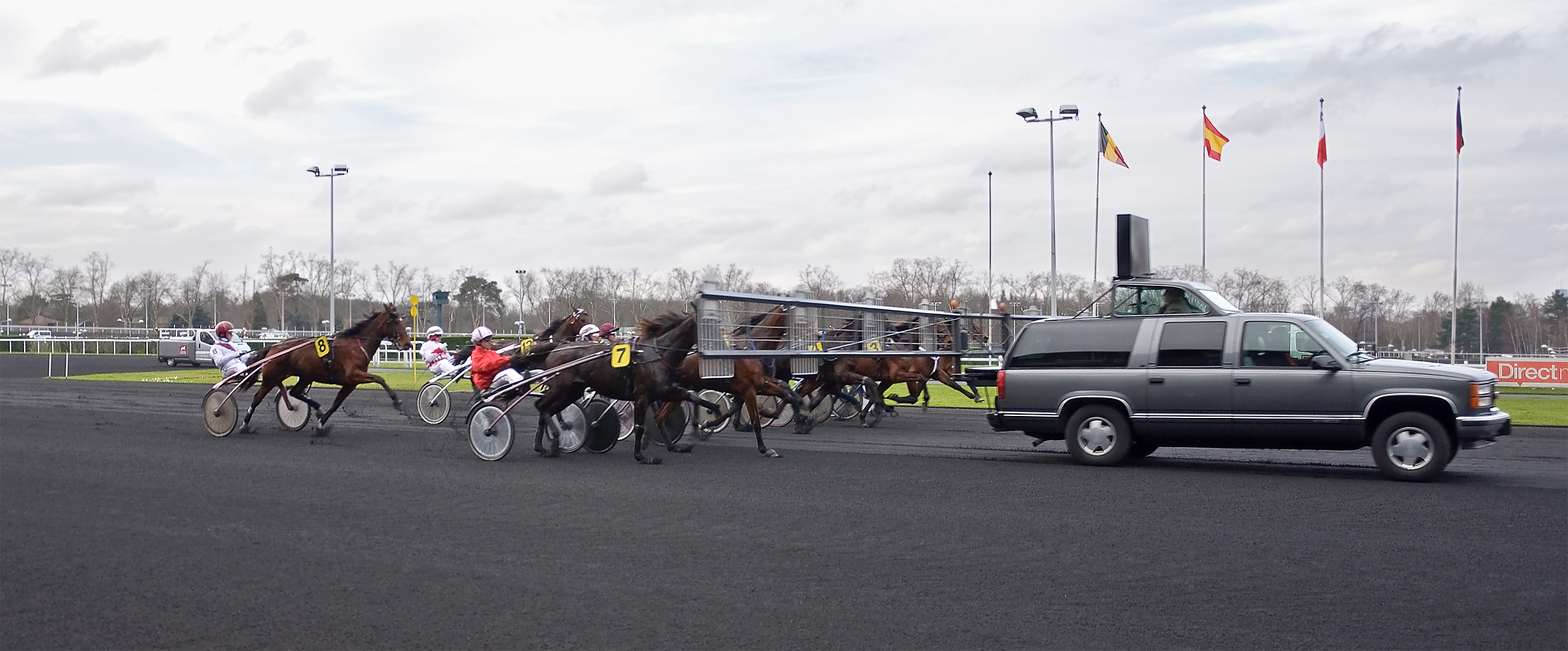 Mobile starting gate in Vincennes racecourse, during the harness race Prix du Japon - Prix de France 2011.